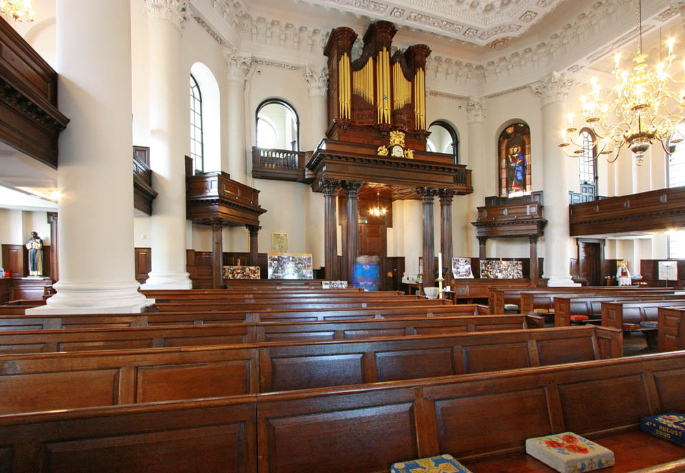 St Paul, Deptford High Street, London SE8 - West end.